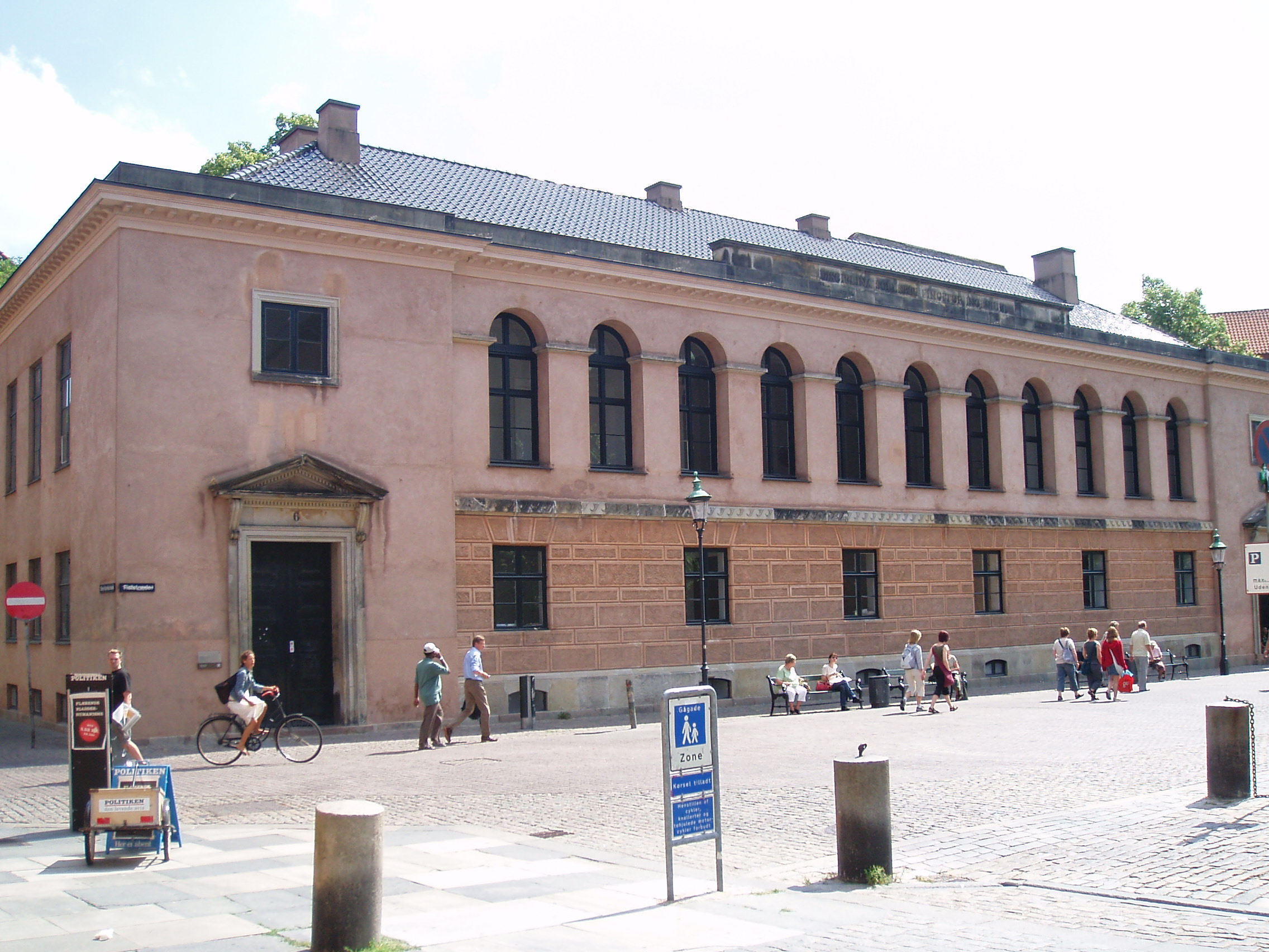 University of Copenhagen The Metropolitan Annex right next to the main buildings. Previously functioned as a high school.